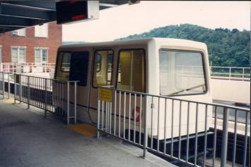 Morgantown West Virginia Rapid Transit